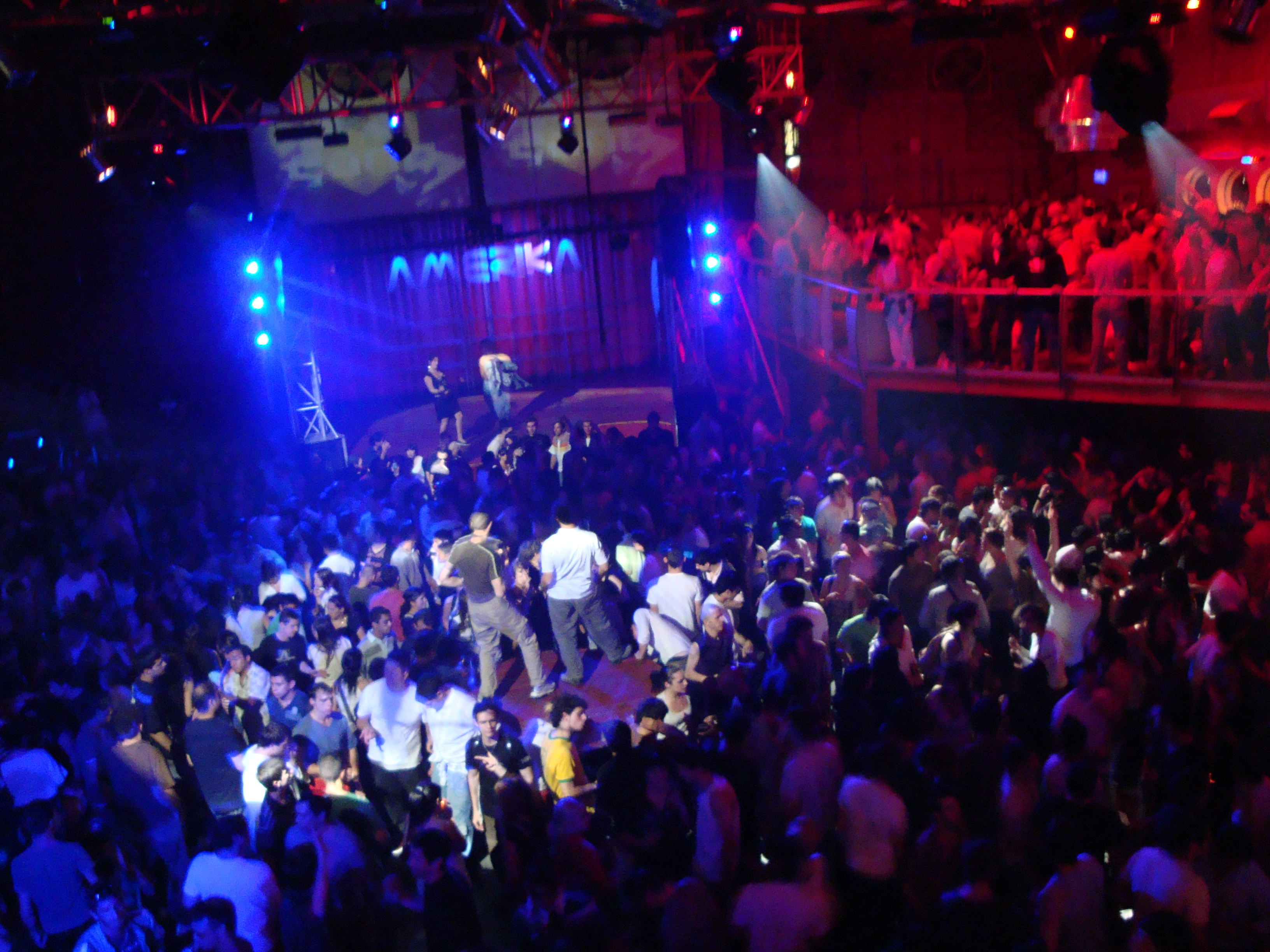 The Amerika Disco in the city of Buenos Aires, Argentina